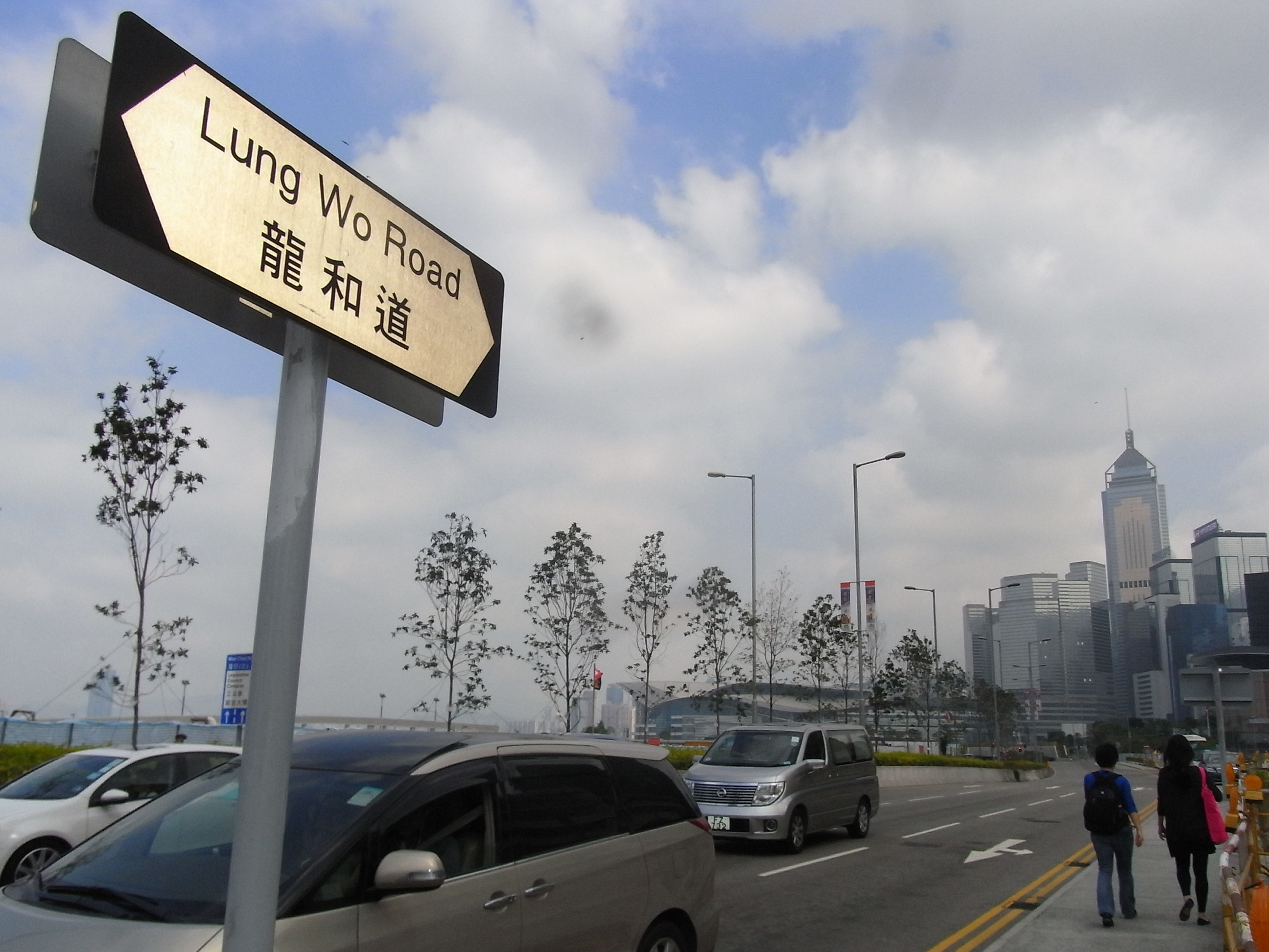 Lung Wo Road, Admiralty, Central, Hong Kong